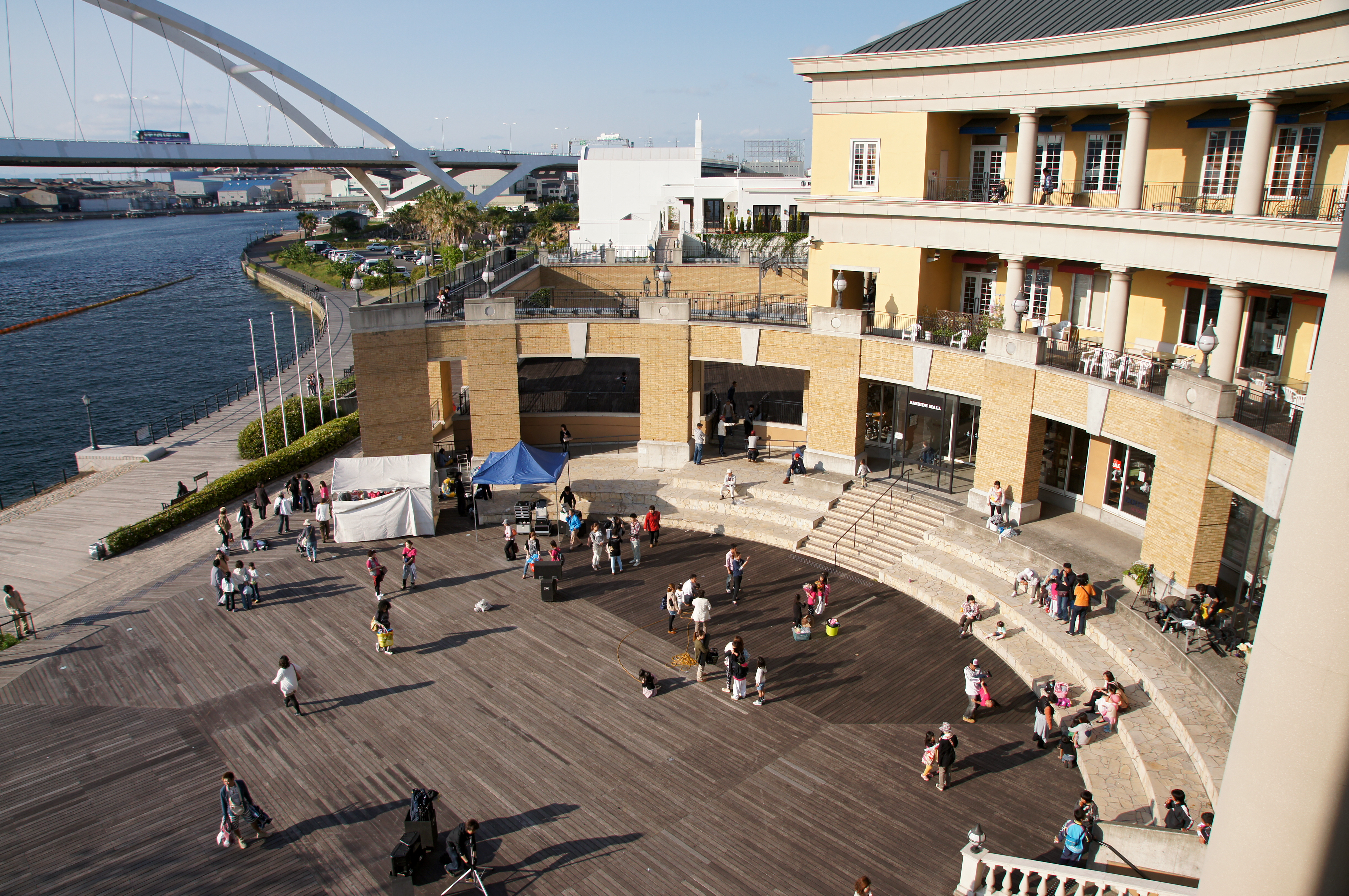 Kishiwada_CanCan_Bayside_Mall in Kishiwada, Osaka prefecture, Japan